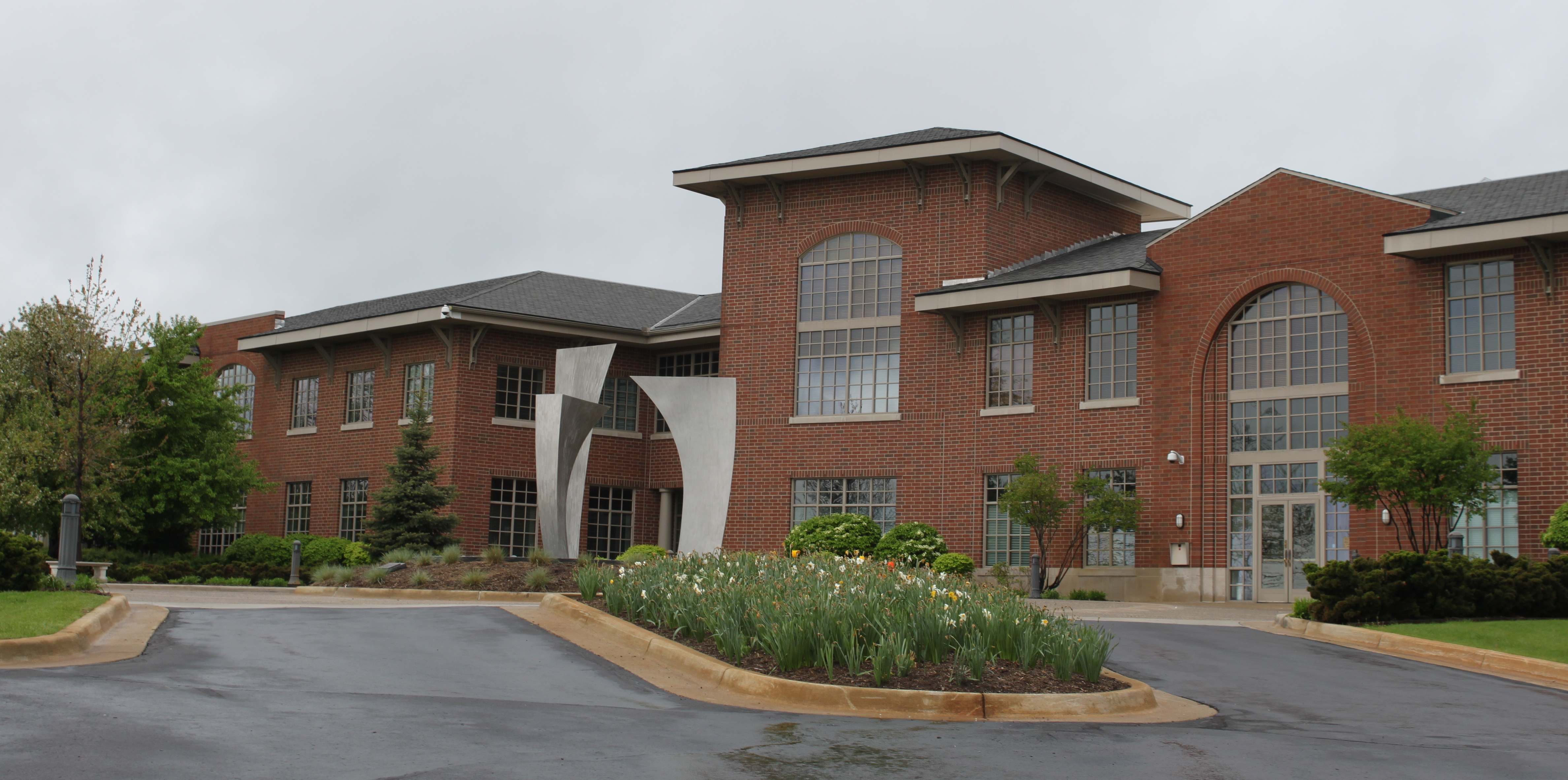 NSF International headquarters, 789 Dixboro Rd., Ann Arbor, Michigan 48105